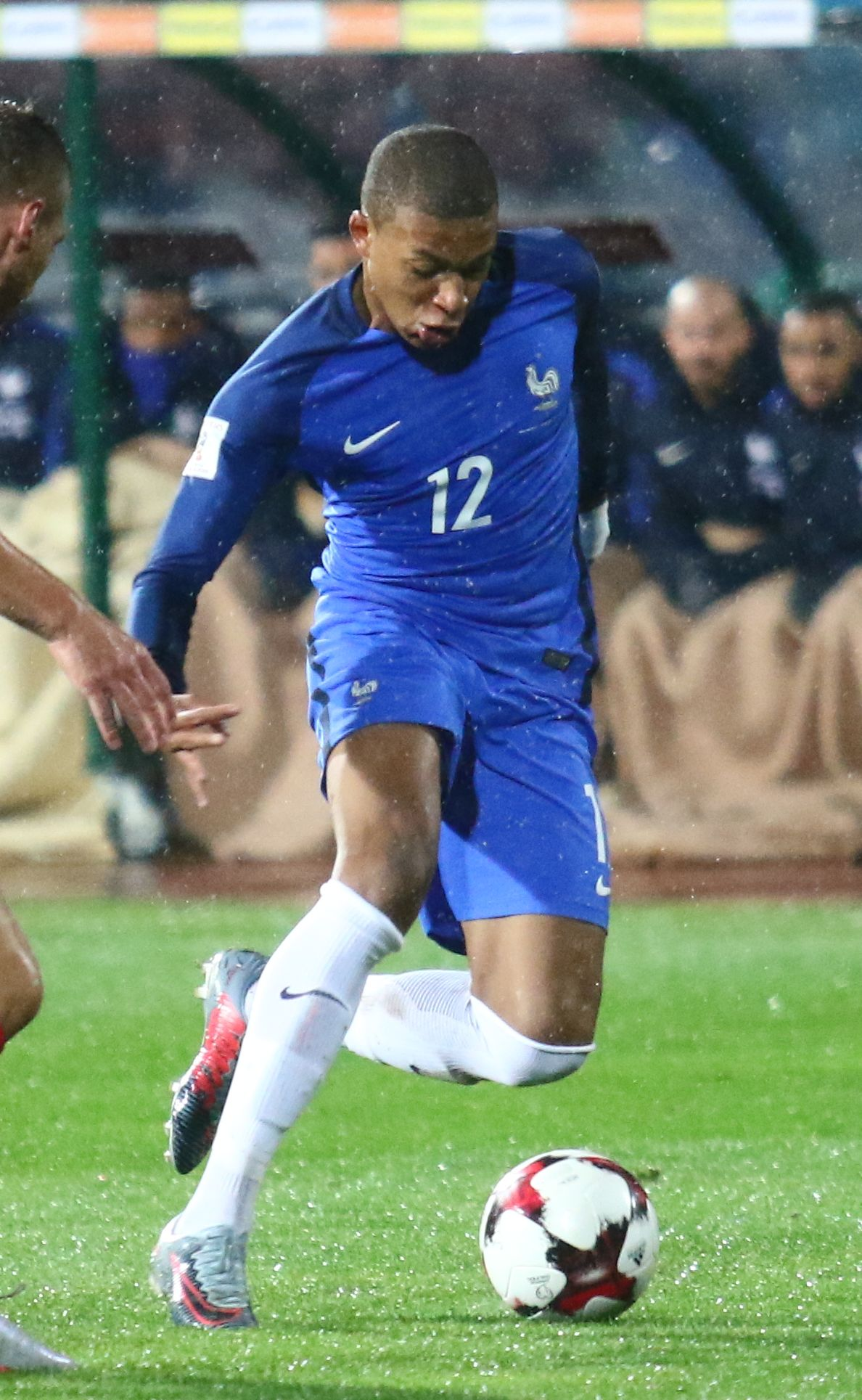 Kylian Sanmi Mbappé Lottin (French pronunciation: ​[kiljan (ə)mbape]; born 20 December 1998) is a French professional footballer who plays as a forward for Paris Saint-Germain, on loan from Monaco, and the France national team.